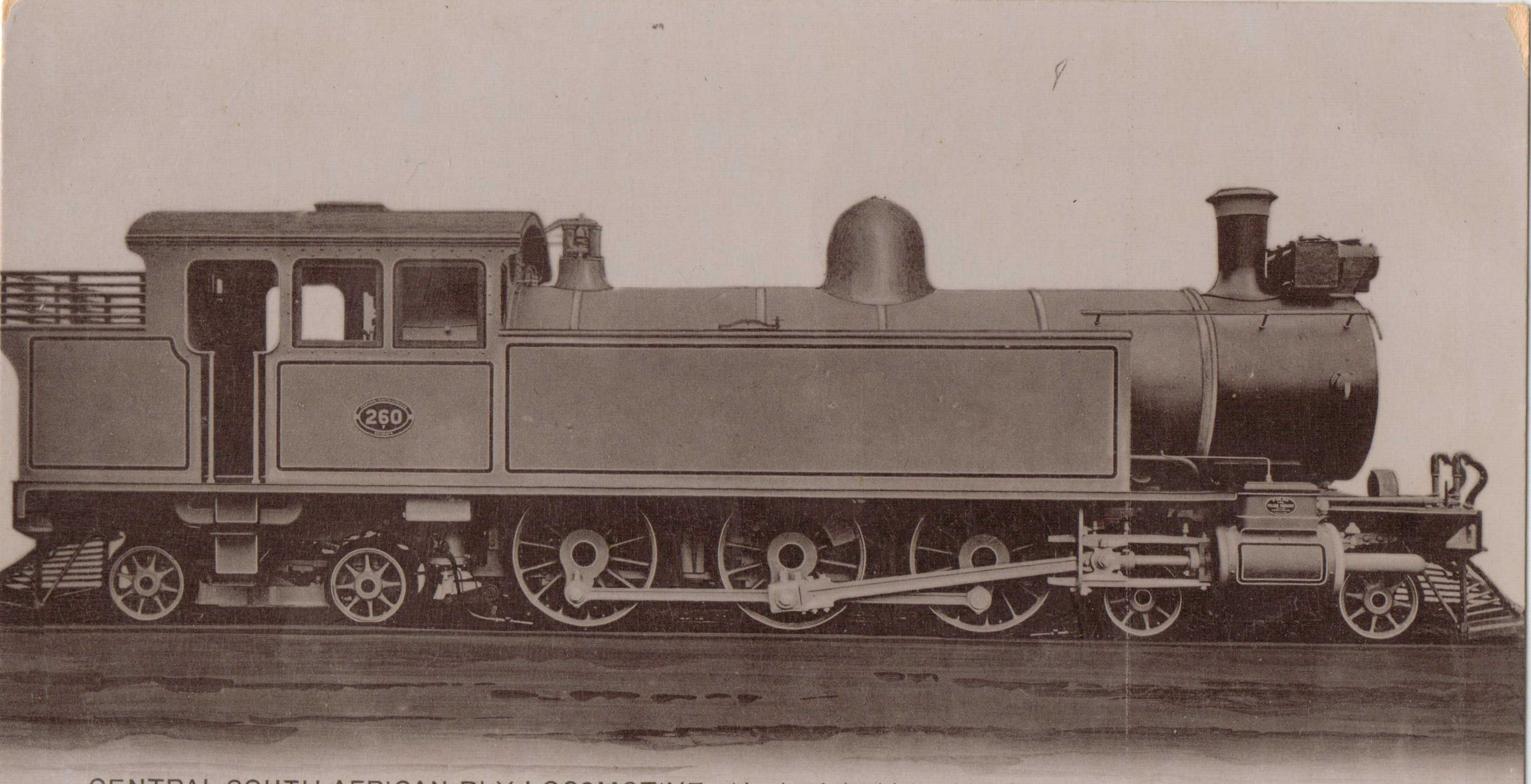 SAR Class F 78 (4-6-4T) Ex CSAR 260